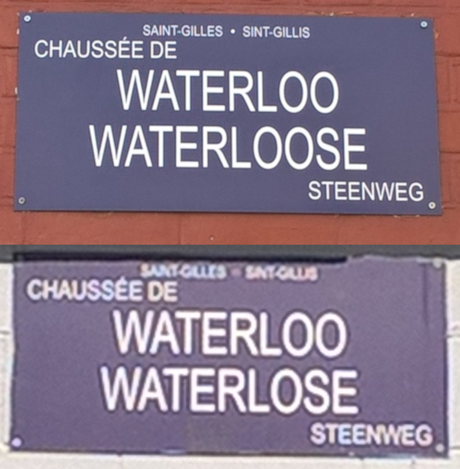 Two streetsigns showing different spellings of the Dutch 'Waterlo(o)sesteenweg' in St-Gilles/St-Gillis, on 2 April 2018